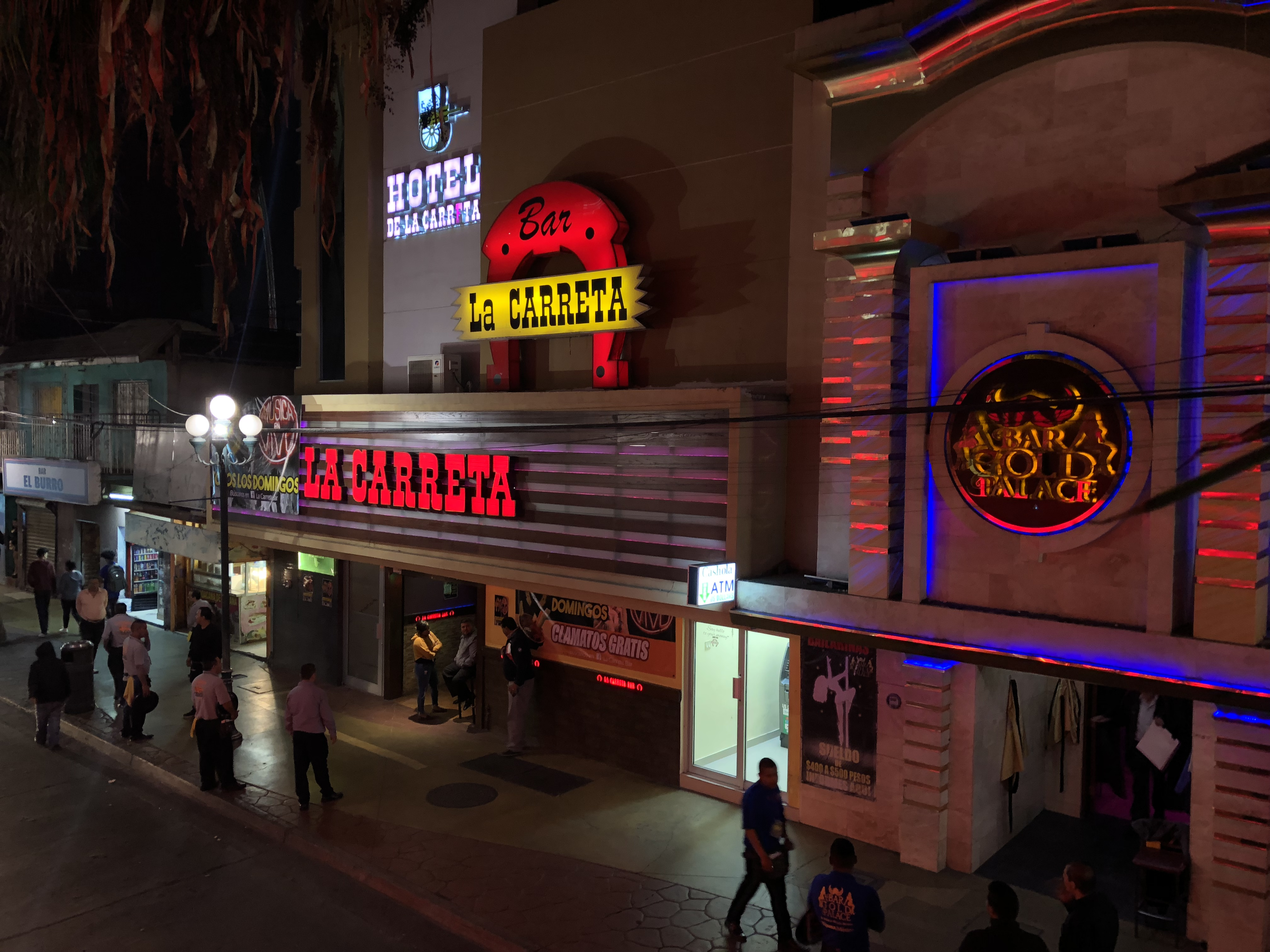 Photo of a bar at night.